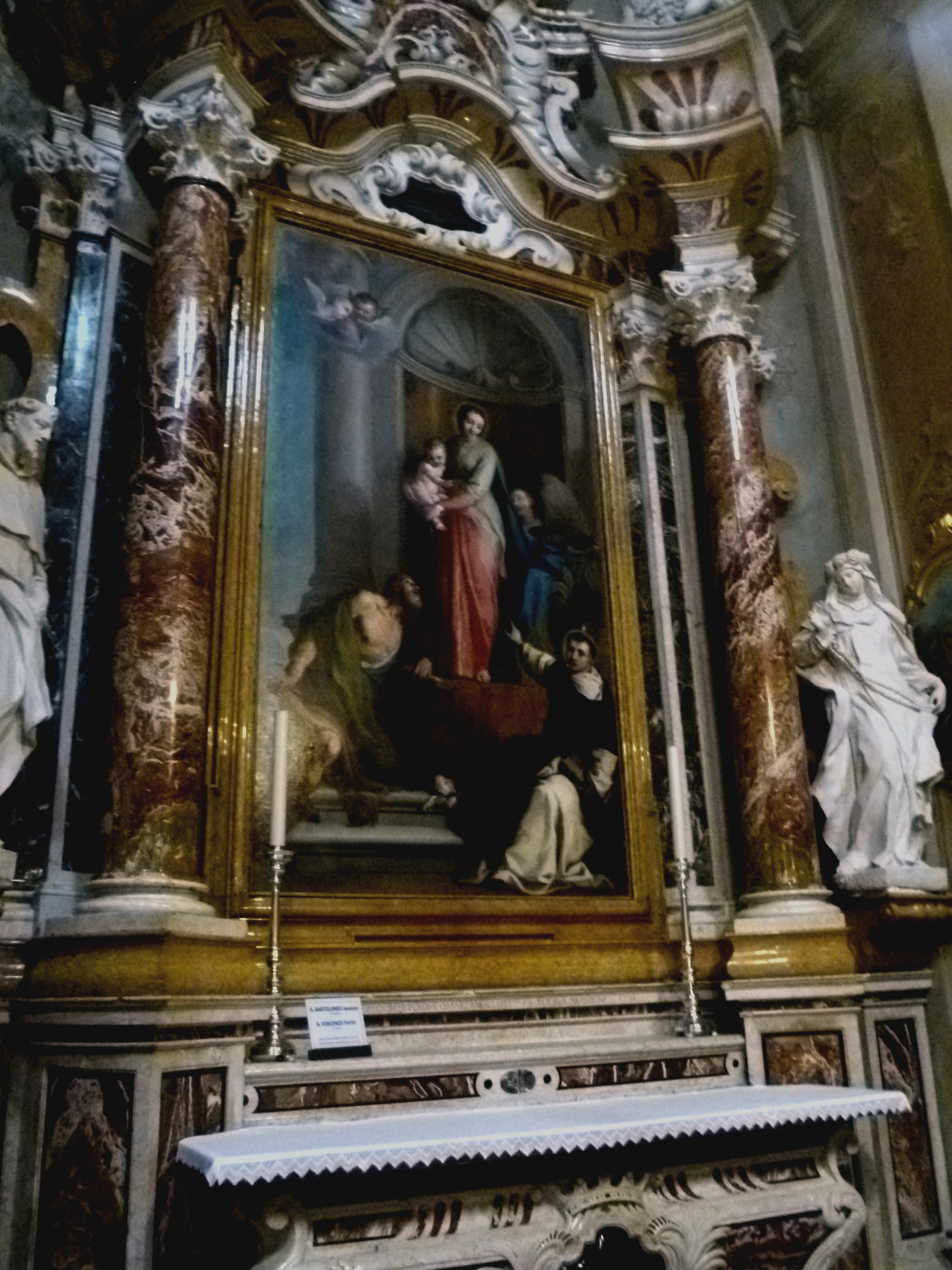 "Saint Bartholomew and Saint Vincent Ferrer", altarpiece (1744) by Giambettino Cignaroli da Verona; altar by Teodoro Benedetti da Castiona (1744); church of Santa Maria Assunta, Riva del Garda, Italy